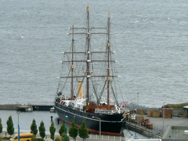 The Discovery. The Discovery viewed from St. Mary's Tower